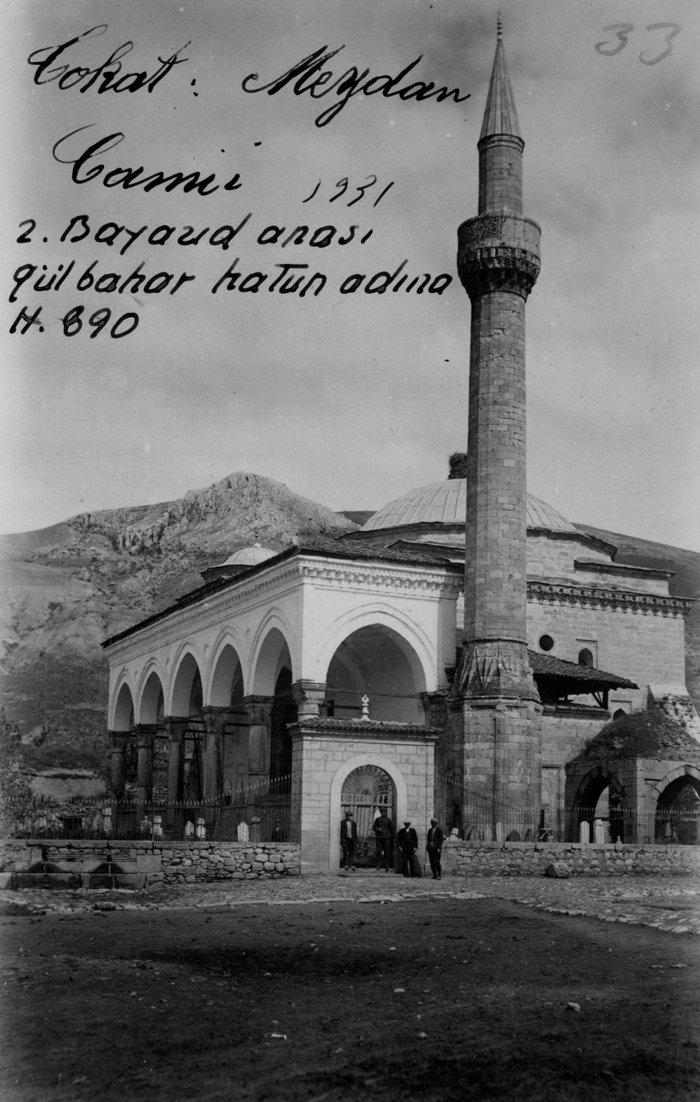 Tokat Hatuniye Camii. Photos by Ali Saim Ülgen. SALT Araştırma, Ali Saim Ülgen Arşivi. SALT Research, Ali Saim Ülgen Archive